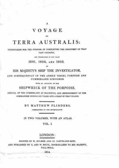 Title page of Matthew Flinders (1814) A Voyage to Terra Australis: Undertaken for the Purpose of Completing the Discovery of that Vast Country, and Prosecuted in the years 1801, 1802 and 1803, in His Majesty's Ship the Investigator, and Subsequently in the Armed Vessel Porpoise and Cumberland Schooner: With an Account of the Shipwreck of the Porpoise, Arrival of the Cumberland at Mauritius, and Imprisonment of the Commander during Six Years and a Half in that Island, London: Printed by W. Bulmer and Co., Cleveland-Row, and published by G. and W. Nicol, booksellers to His Majesty, Pall-Mall OCLC: 1931791.